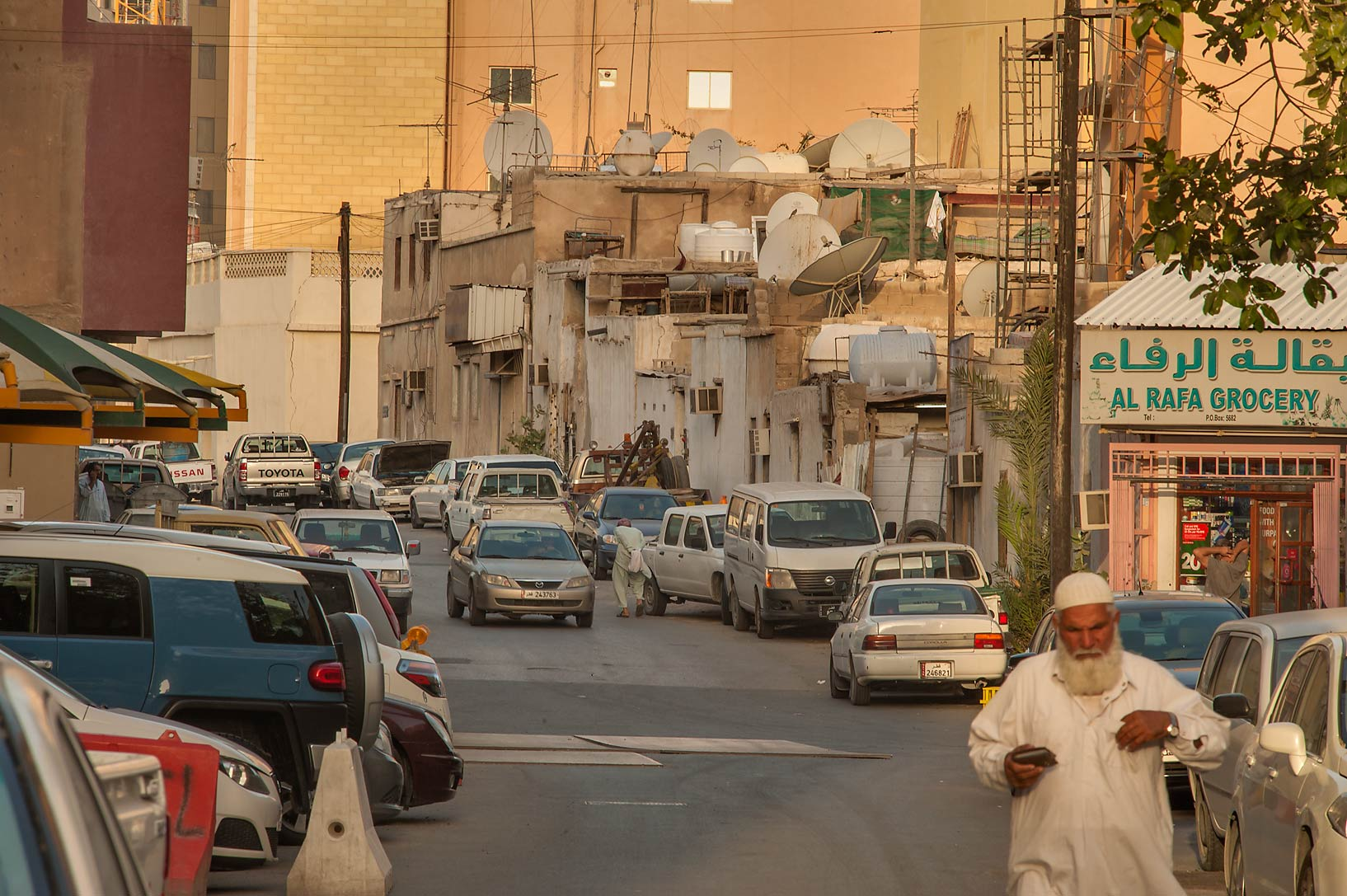 Muaath Bin Jabal Street in Al Doha Al Jadeeda neighborhood of Doha, Qatar